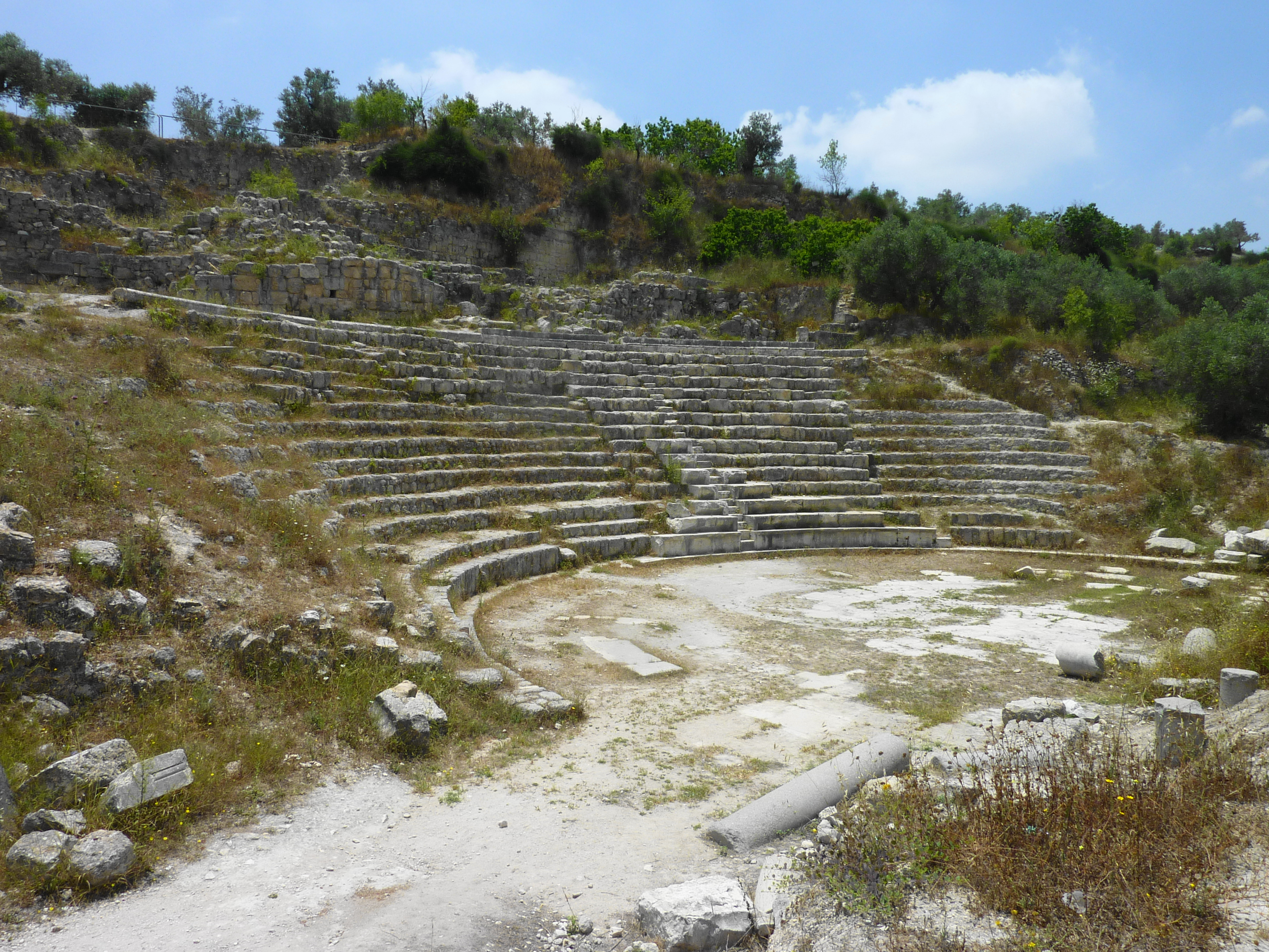 Theatre